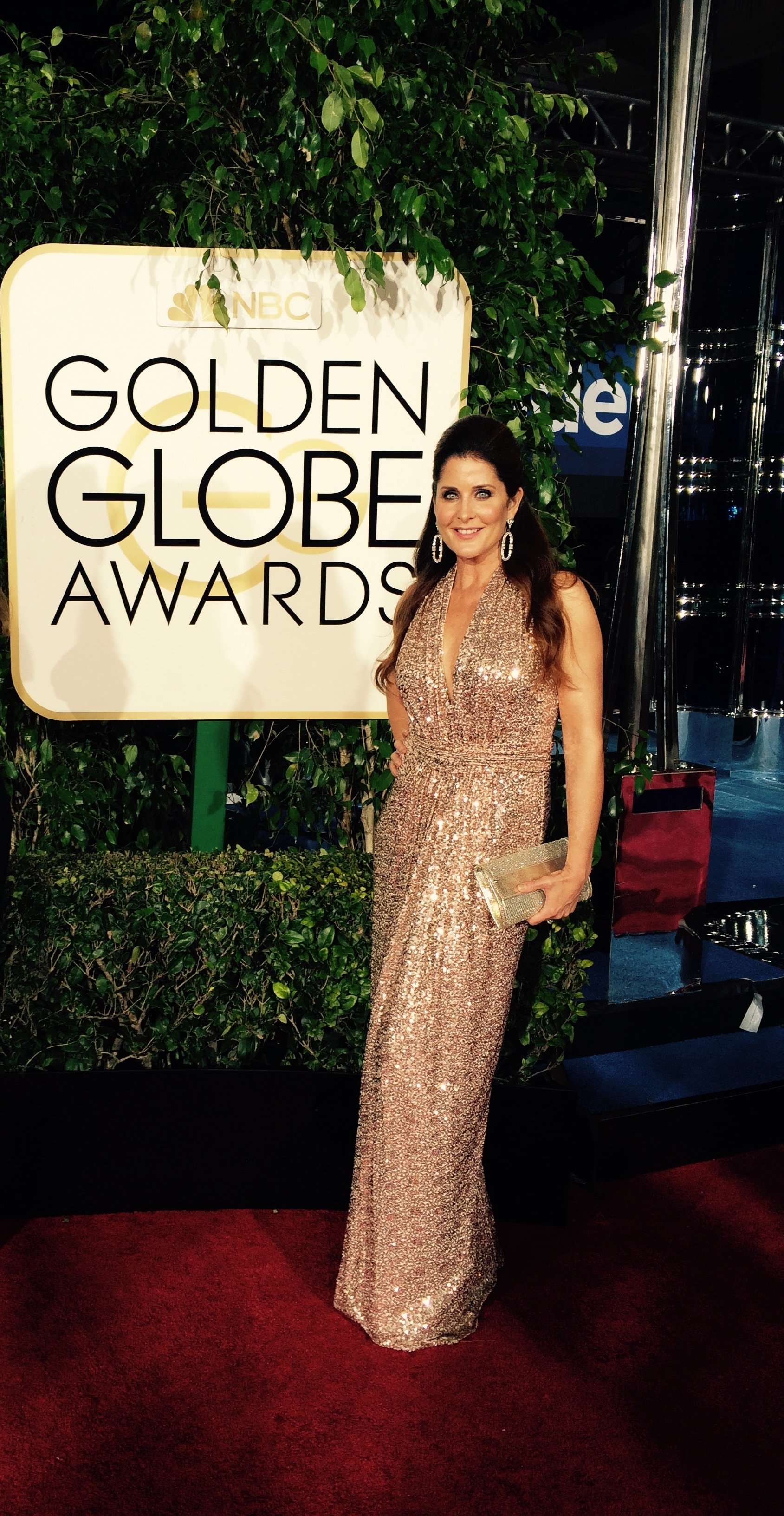 Alex McLeod at the Golden Globes.